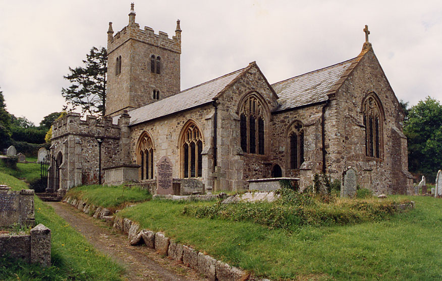 St Mary, Hennock, Devon